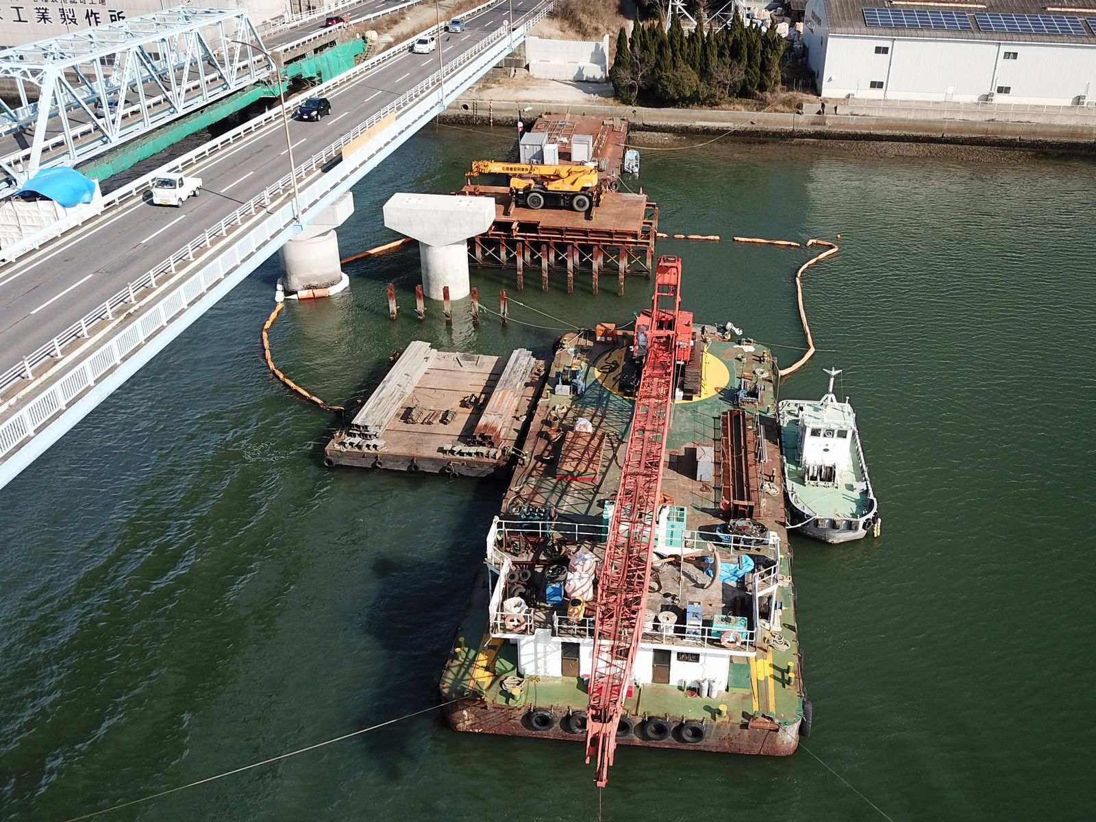 A new KINUURA OH-HASHI bridge to be built of left turn only lane. (TAKAHAMA City, AICHI Pref., JAPAN)